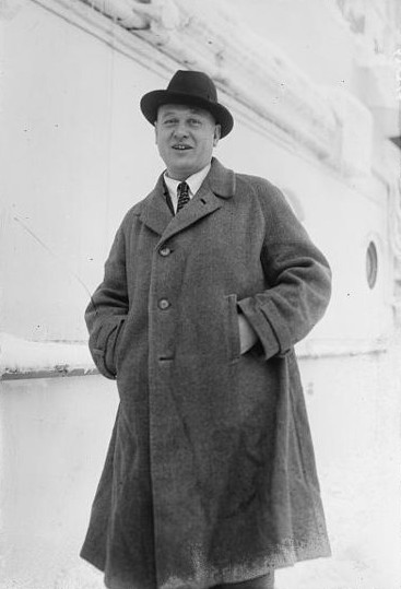 Georges Baklanoff (1882-1938), Russian baritone